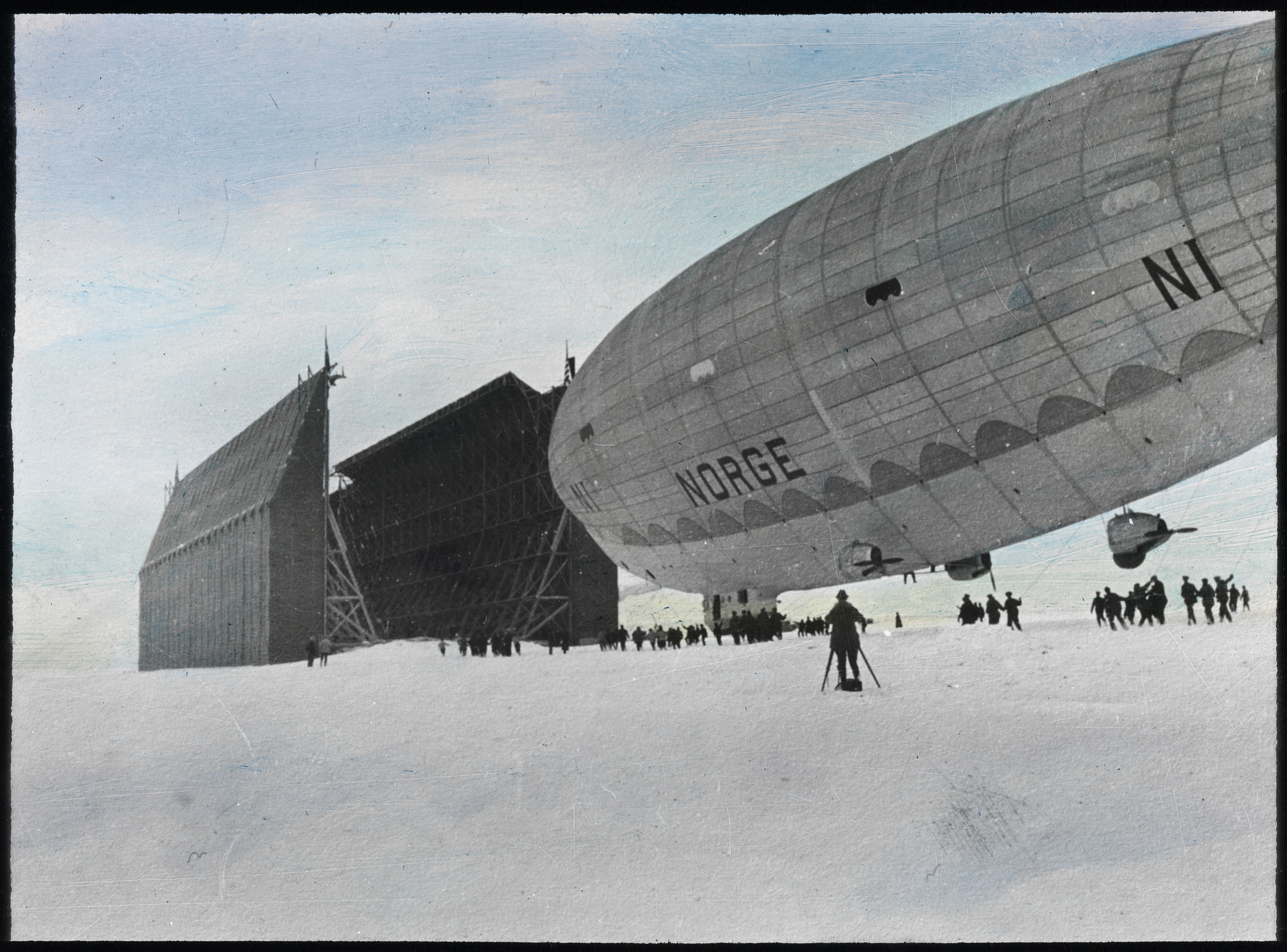 Tittel / Title: Luftskipet "Norge" trekkes inn i luftskiphallen i Ny-Ålesund Beskrivelse / Description: Kolorert glassdias. Dato / Date:7. mai 1926 Fotograf / Photographer: ukjent / unknown Sted / Place: Svalbard, Ny-Ålesund Eier / Owner Institution: Nasjonalbiblioteket / National Library of Norway Lenke / Link: Bildesignatur / Image Number: bldsa_NPRA394